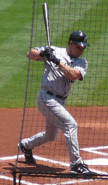 Please attribute photo with author's name if used somewhere other than Wikipedia. 19:16, 4 August 2008 . . Chrisjnelson . . 358×614 (272 KB)